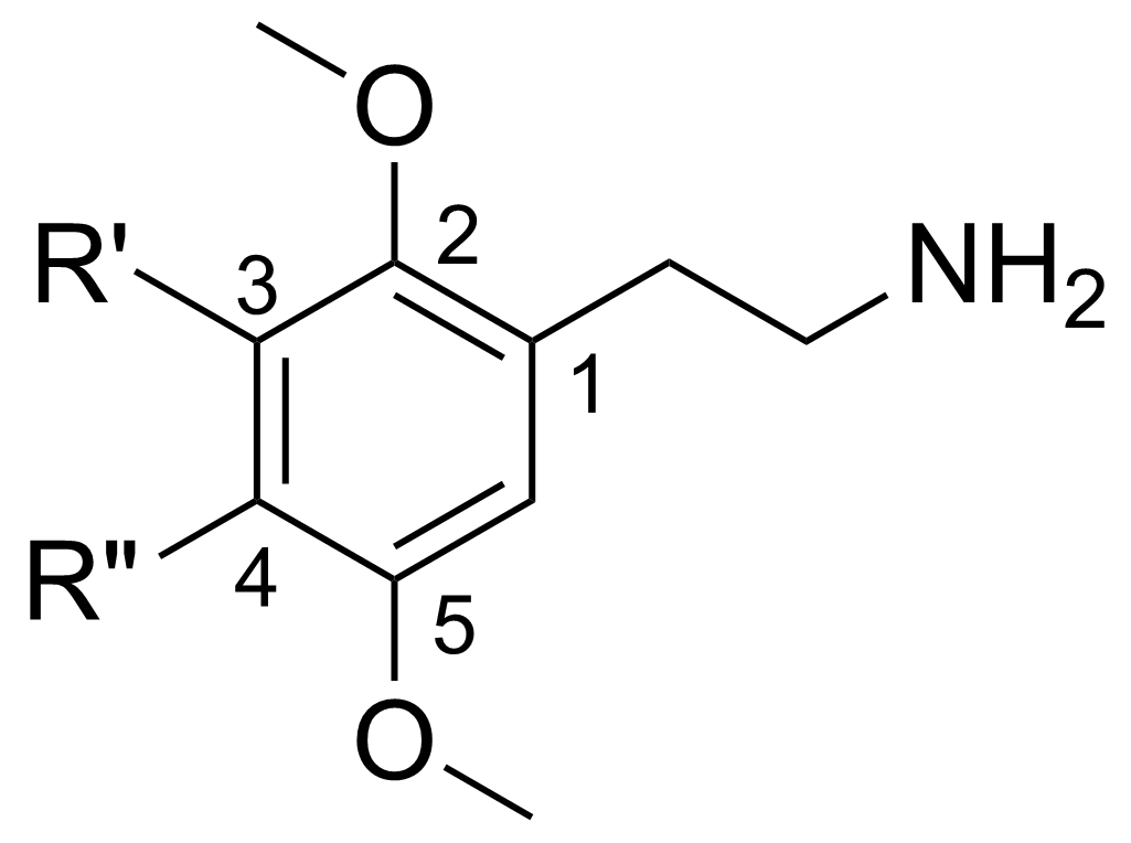 Chemical structure of the 2C family of psychedelics.